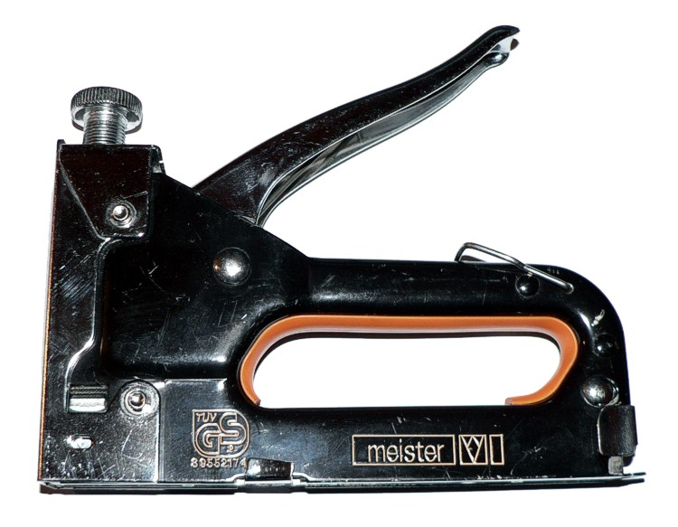 A Staple Gun